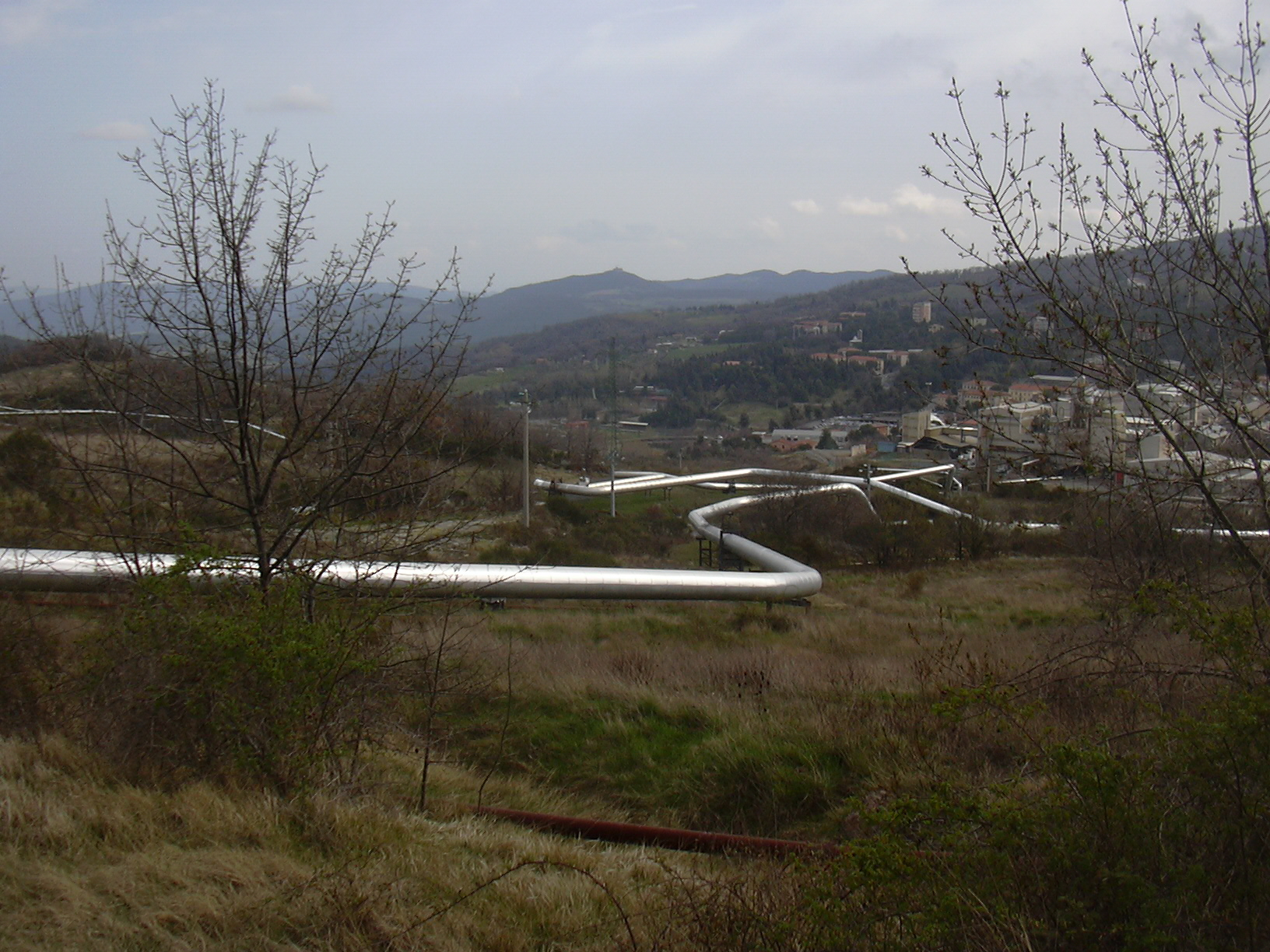 Valle di Diavolo (Larderello), Tuscany/Italy: ENEL pipelines